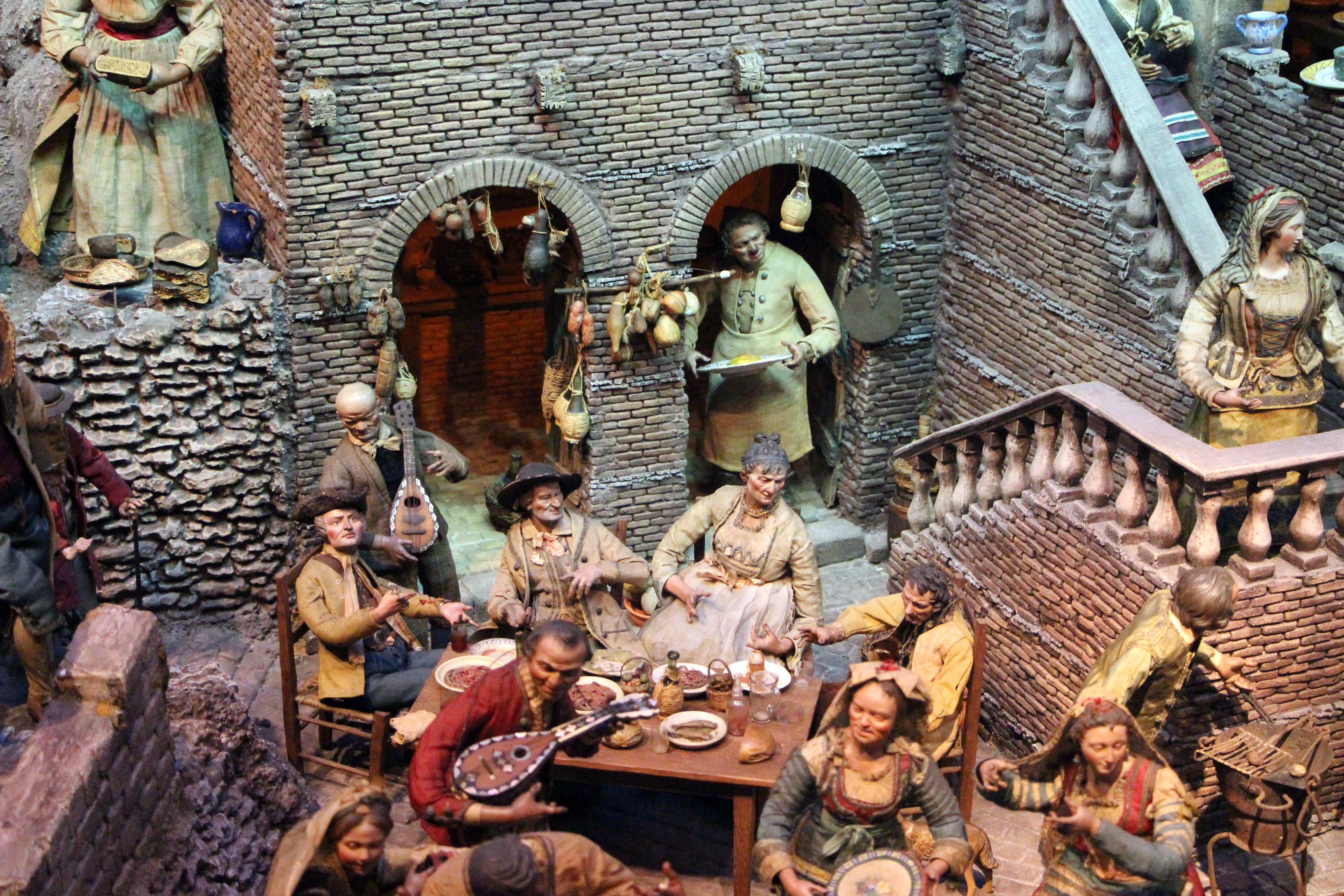 Neapolitan Nativity scene in the Museu de Arte Sacra de São Paulo